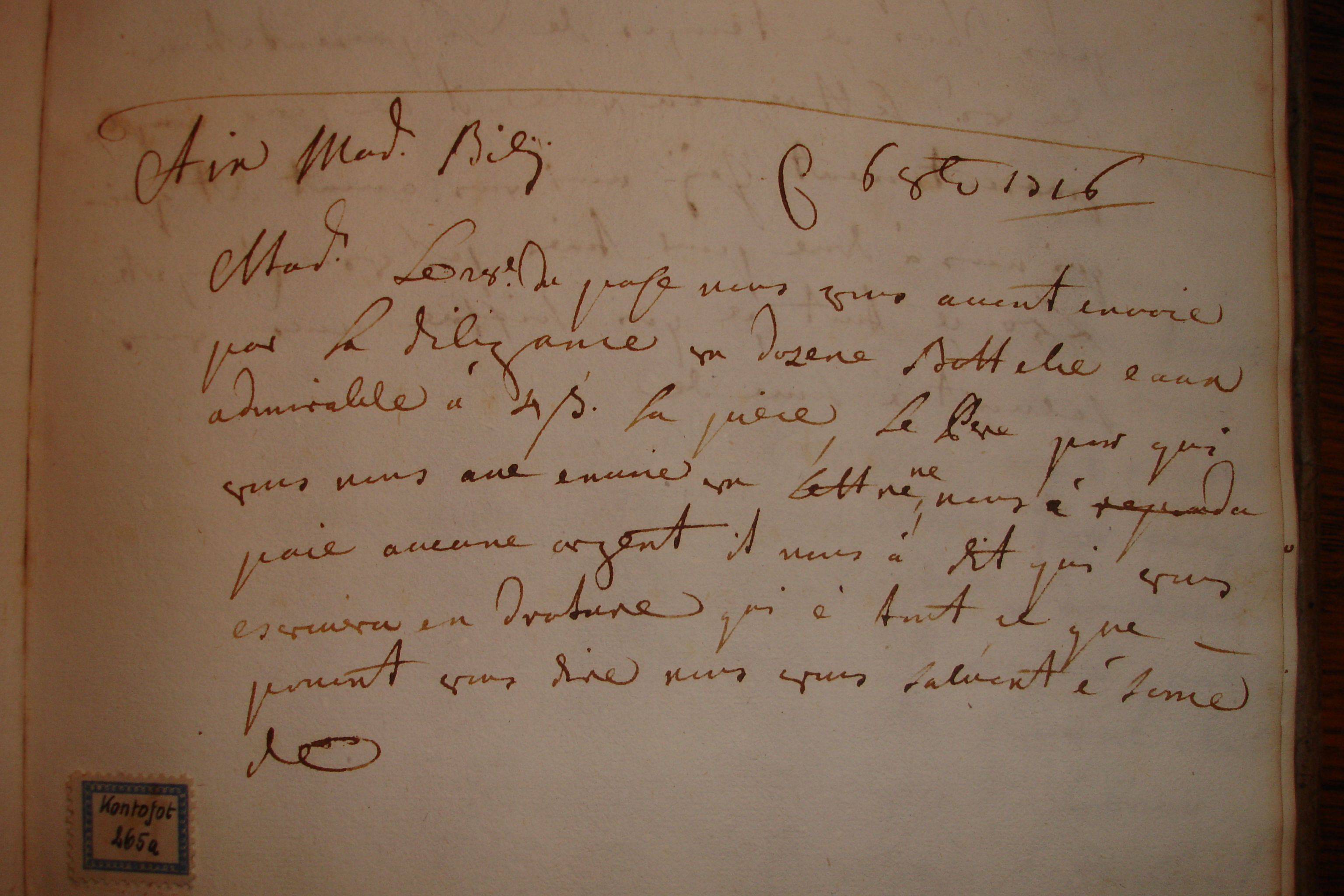 Copy of letter - Johann Maria Farina